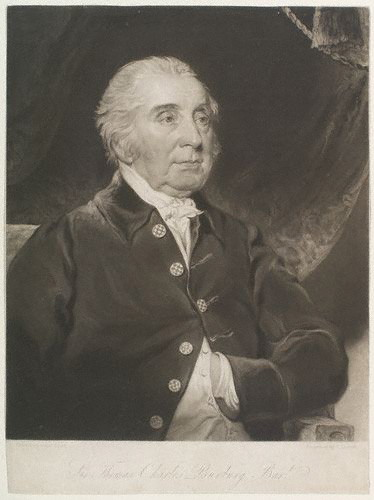 Sir Charles Bunbury, 6th Baronet